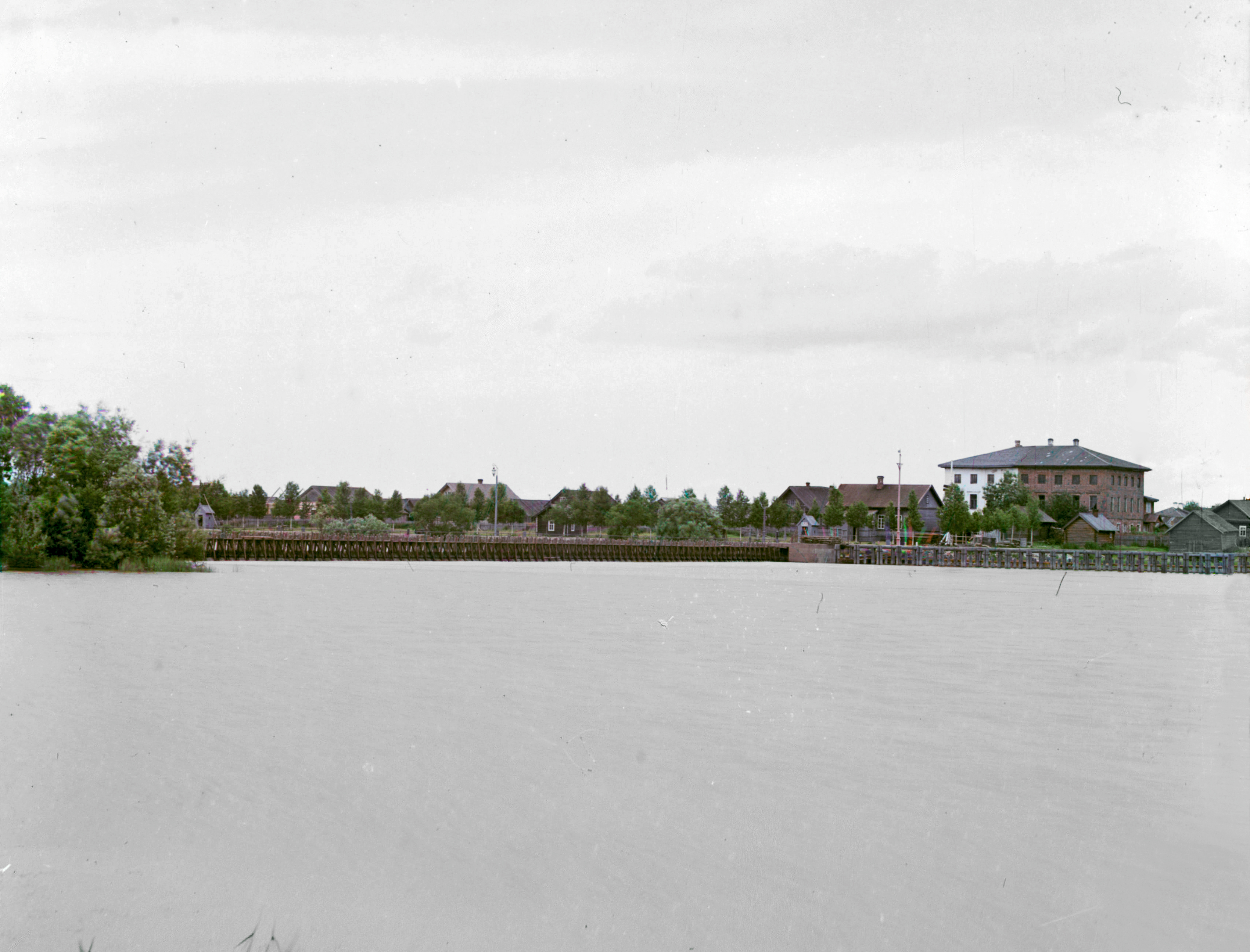 Empress Maria Feodorovna weir, Photo by Prokudin-Gorsky, July 1909